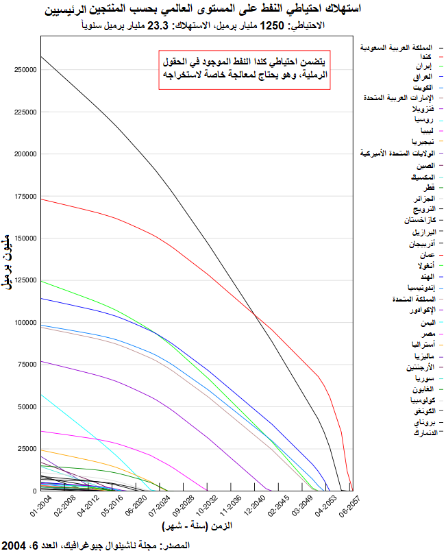 A time chart of oil depletion at each oil producing country.